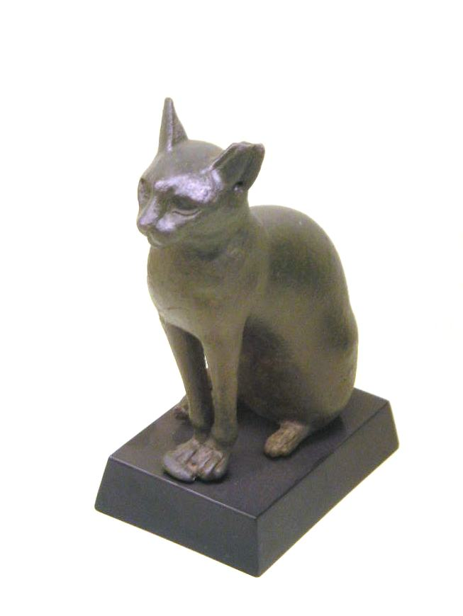 statue of the cat goddess Bastet in Istanbul Museum